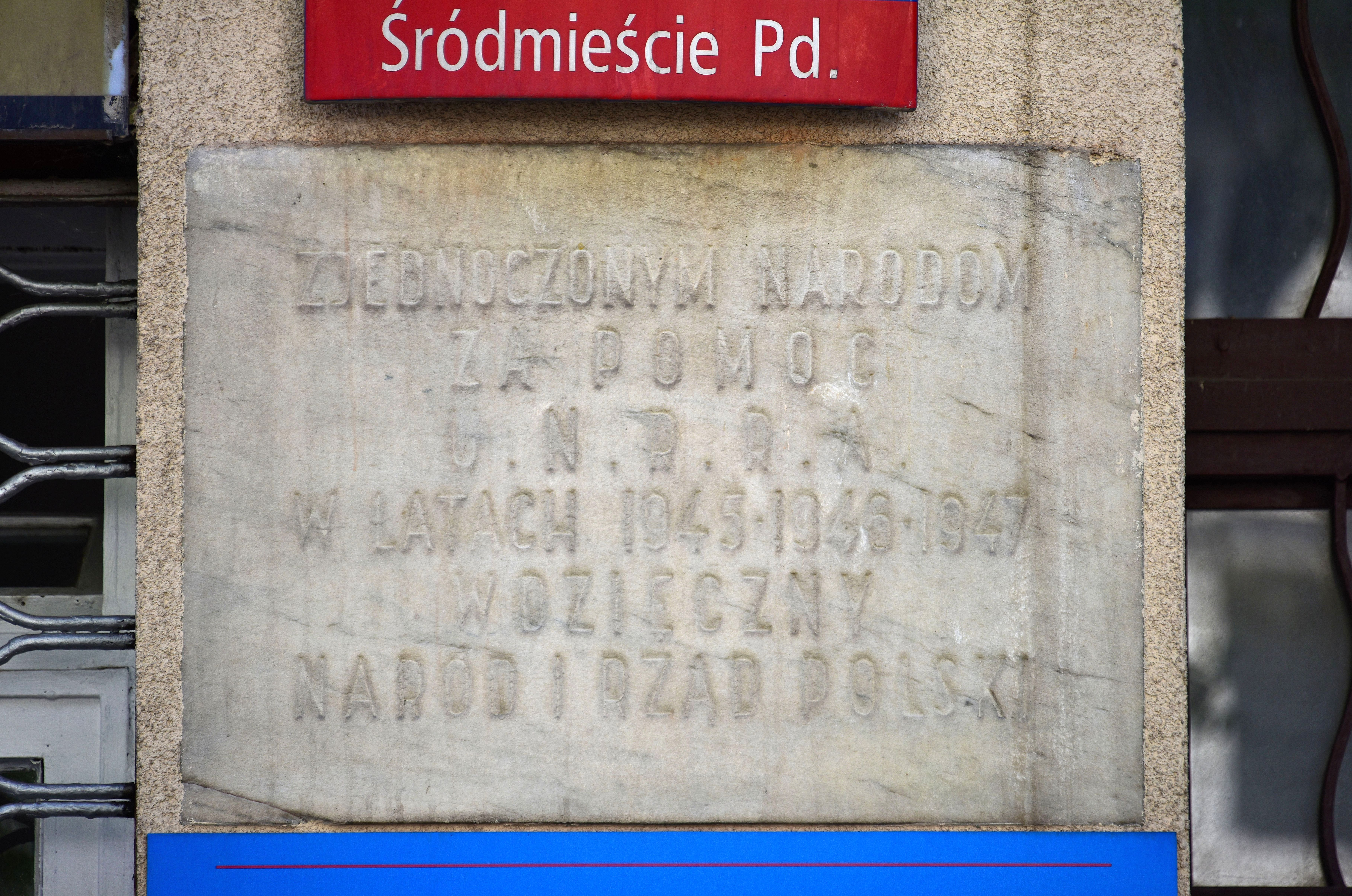 Plaque commemorating UNRRA's aid to Poland at 35 Hoża Street in Warsaw